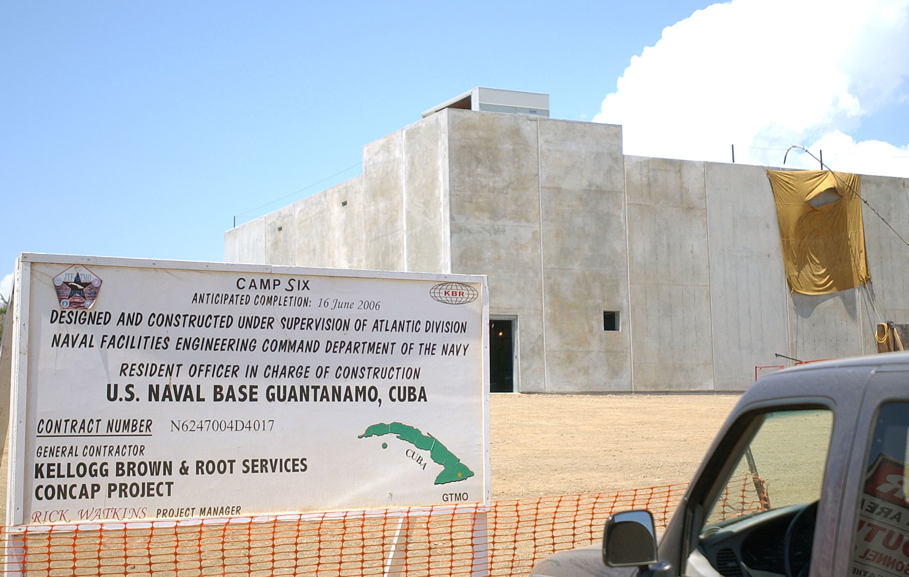 Camp 6, Guantanamo, under construction